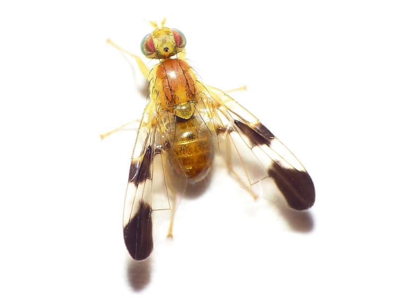 Trypeta zoe (Tephritidae) - (male), Wageningen - Veluvia Hamelakkers, the Netherlands